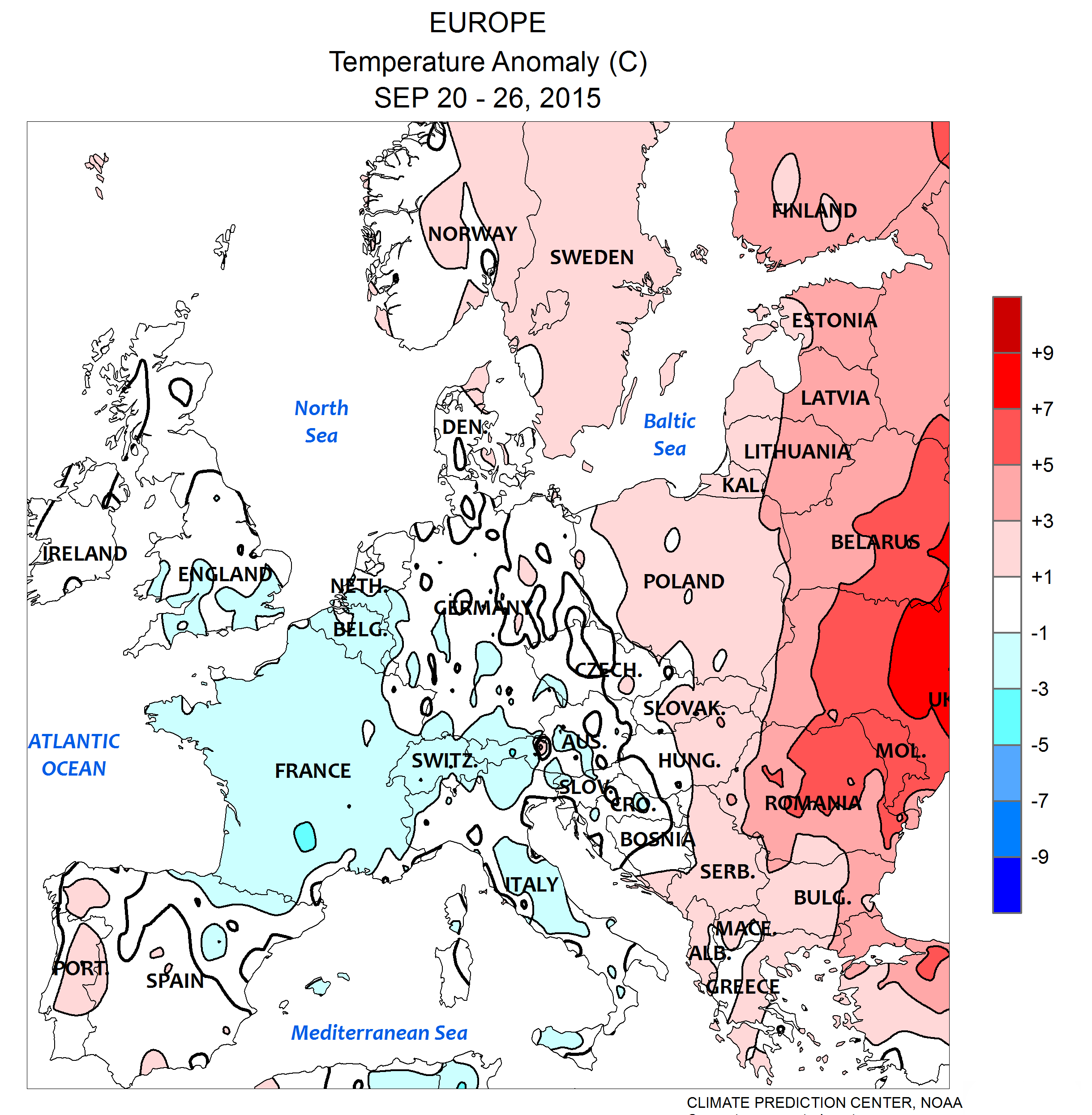 Europe: Temperature anomaly September 20 - 26, 2015, computer generated contours, based on preliminary data